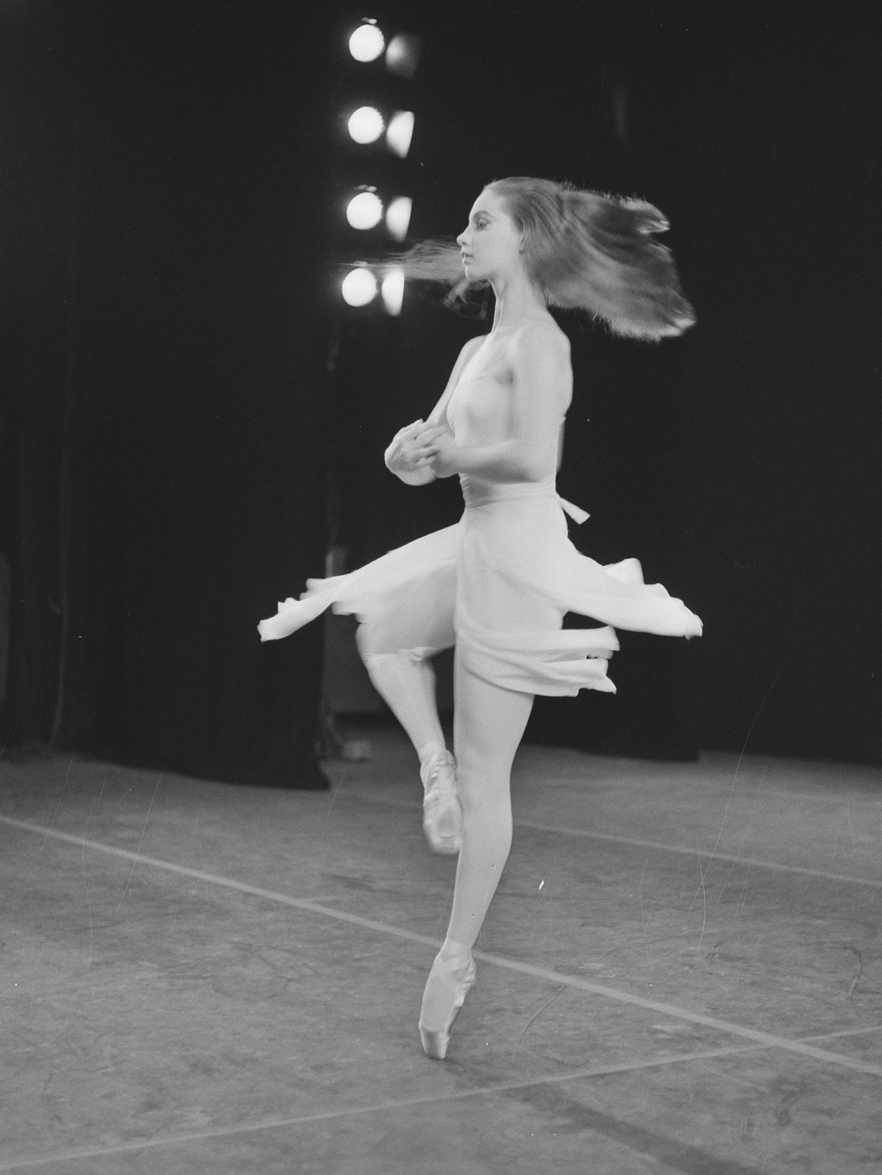 New York City Ballet in Amsterdam, Suzanne Farrell